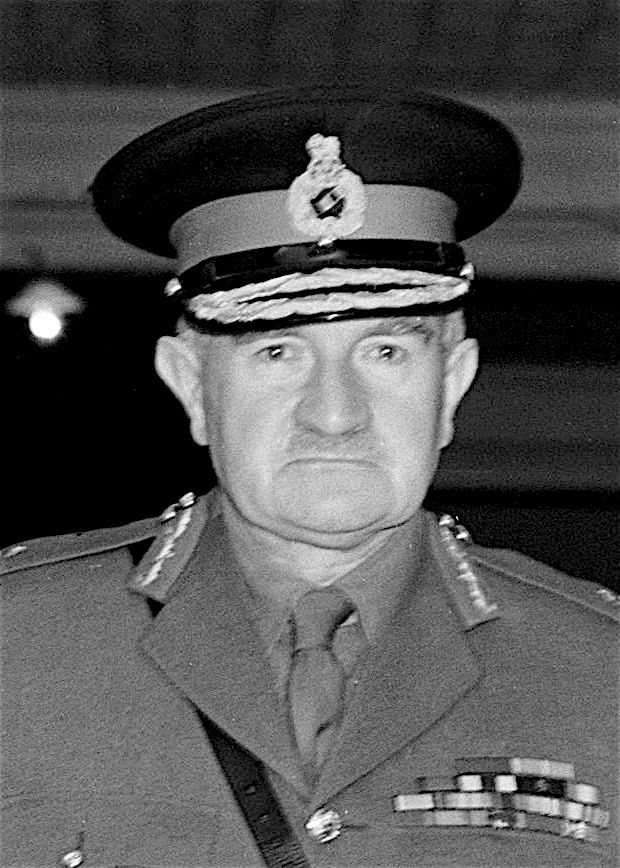 Sir William Slim, a British general during World War II. Photograph taken 29 June 1950 by an Evening Post staff photographer.